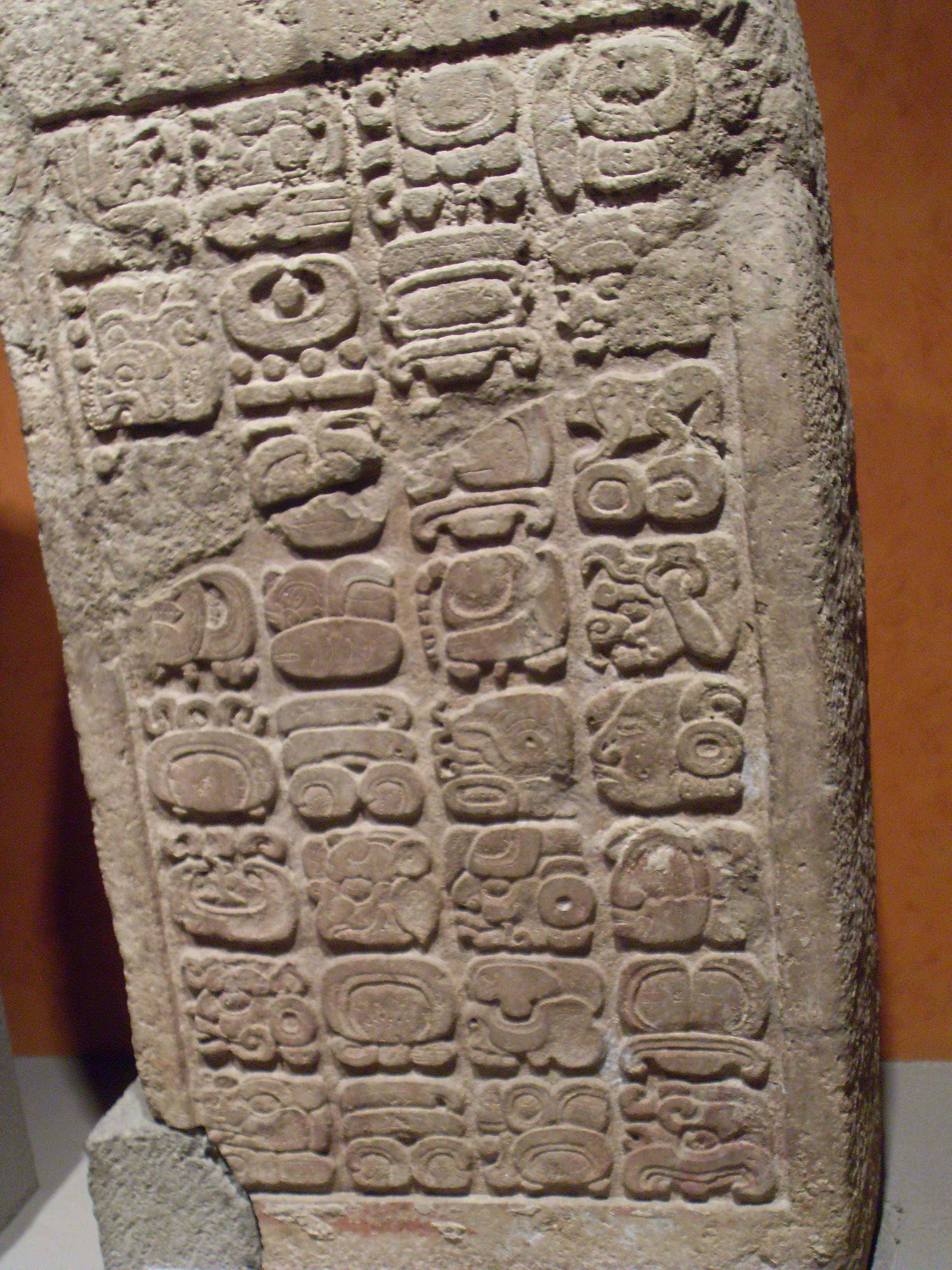 Stela with Mayan script, Anthropological Museum in Mexico City